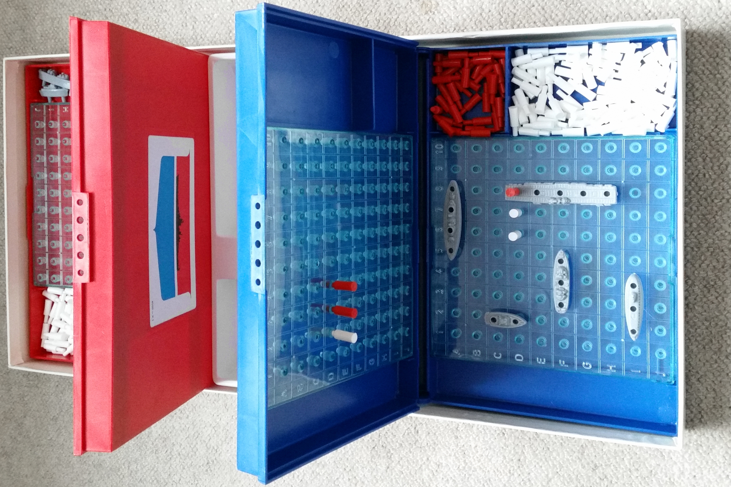 Game Flottenmanoever (Battleship) by MB